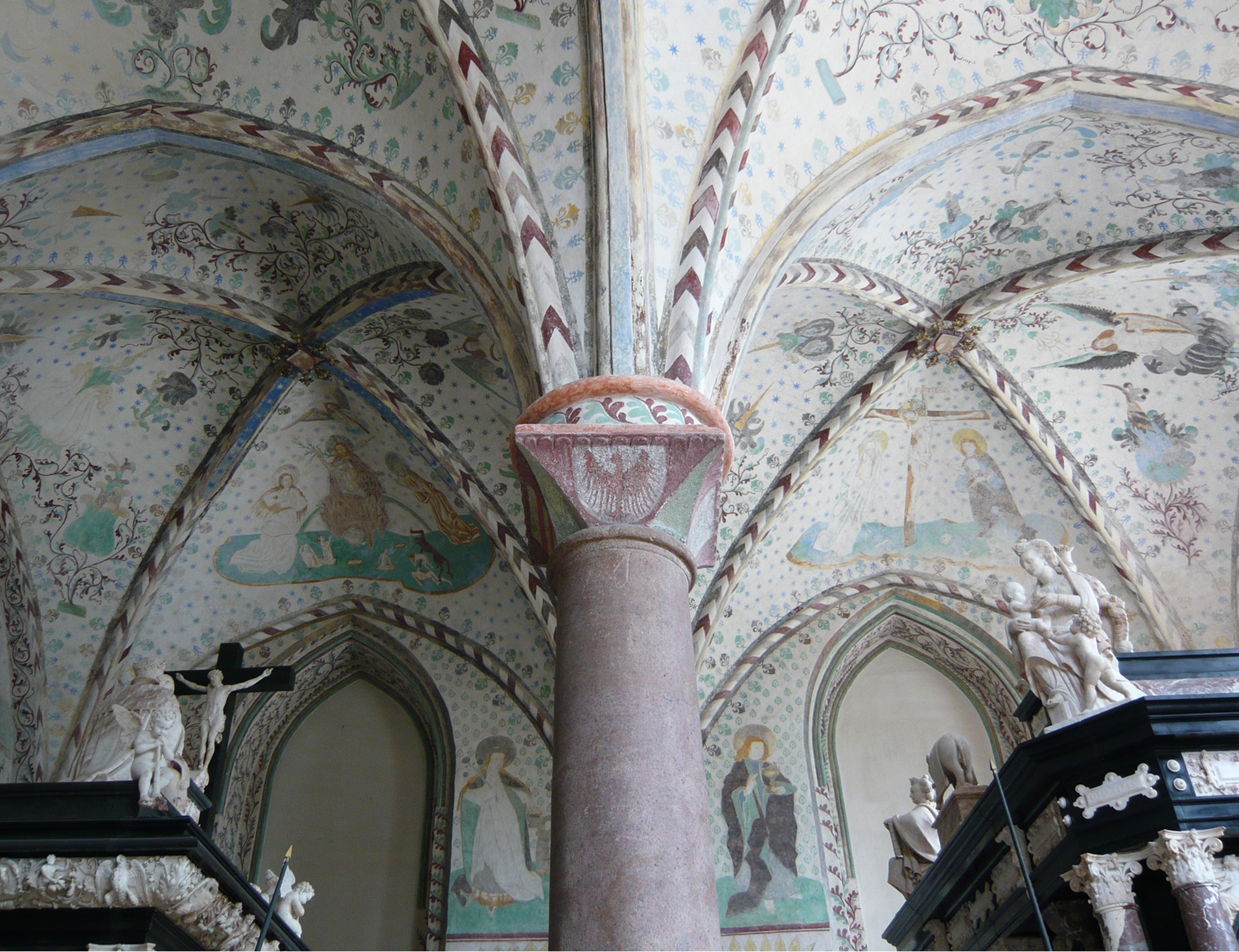 The King's Pillar in the Chapel of the Magi, with the red eagle of Brandenburg (Christian I was married to Dorothea of Brandenburg).